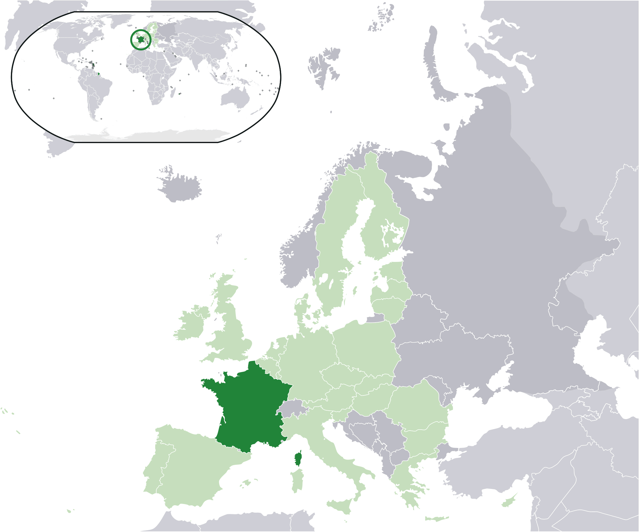 Location map: France (dark green) / European Union (all green) / Europe (all green & dark grey); inspired by and consistent with general country locator maps by User:Vardion, et al.